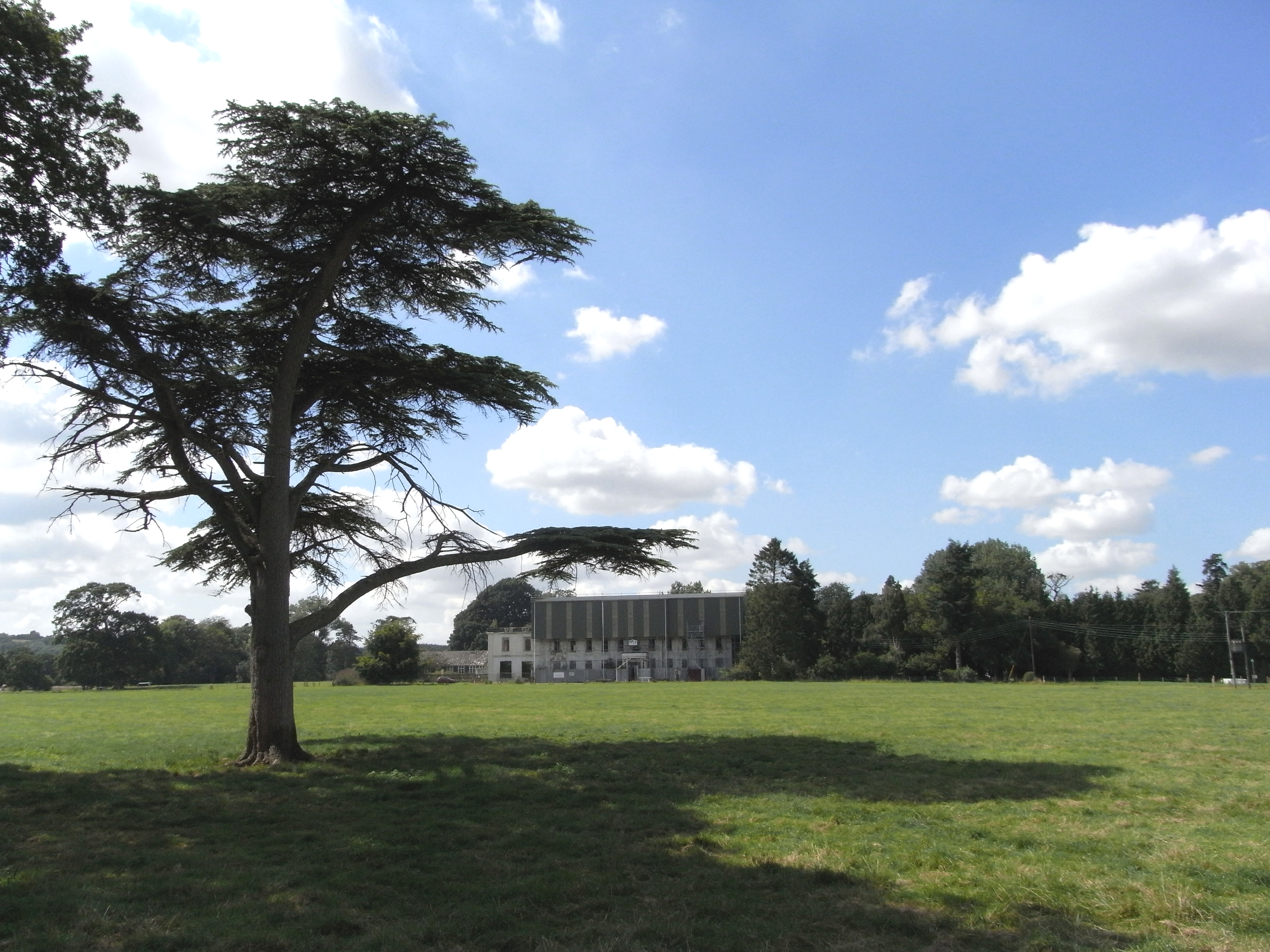 Poltimore House, Poltimore, Devon, south-east front (entrance front), viewed from the park, August 2015.